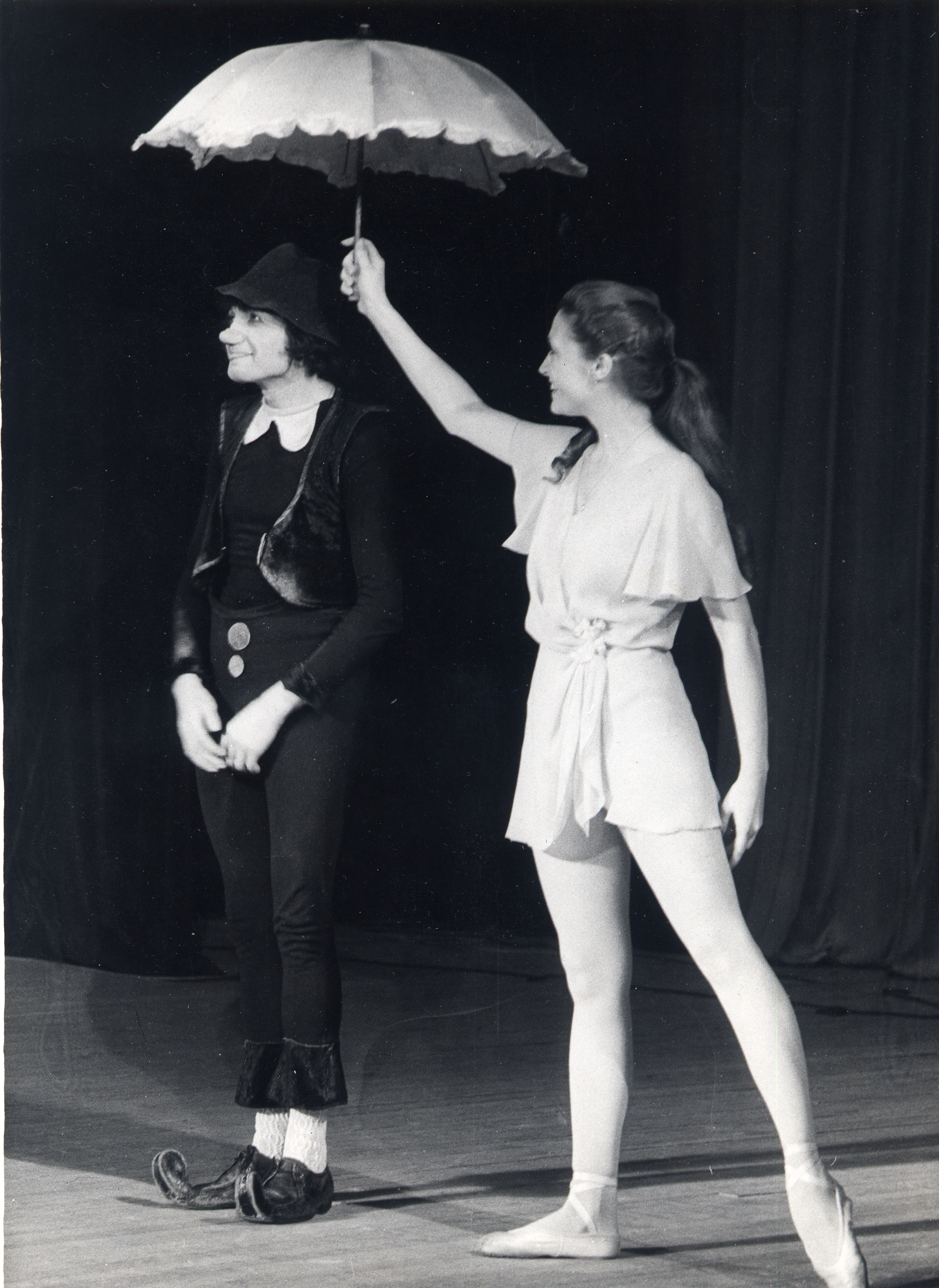 Владимир и Елена Ольшанские "Любовь и Клоуны" Ленинградский Театр Эстрады